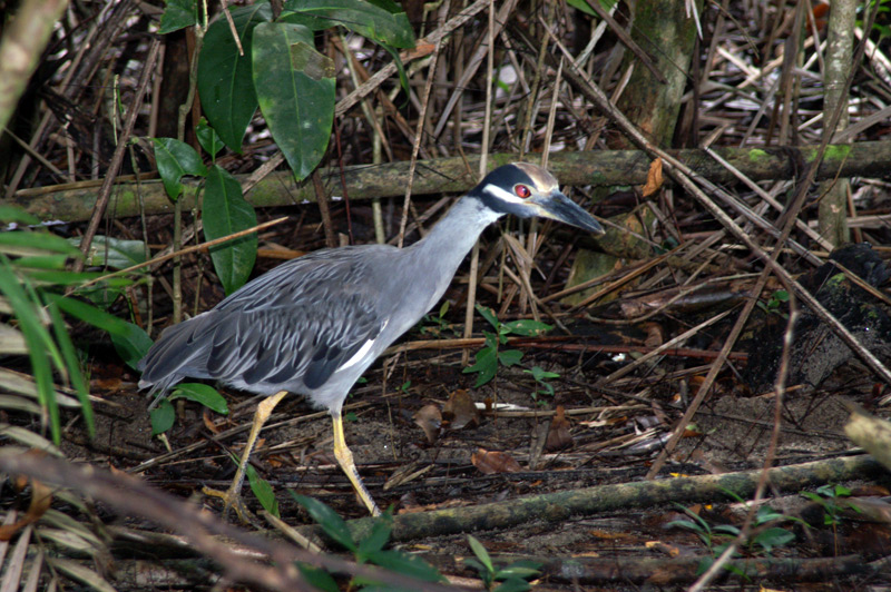 Yellow-crowned Night-heron